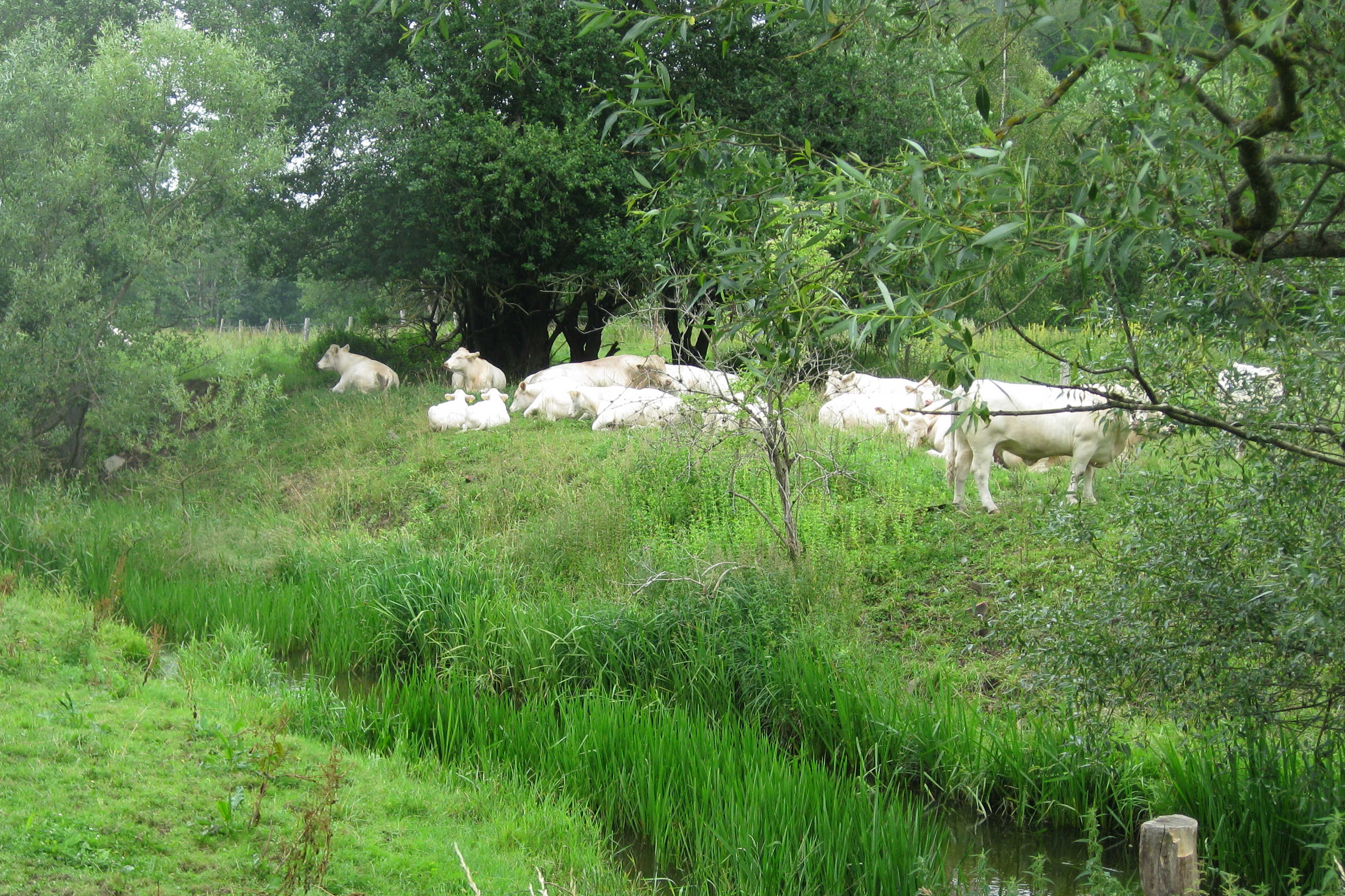 Fyleån, stream in Scania, Sweden